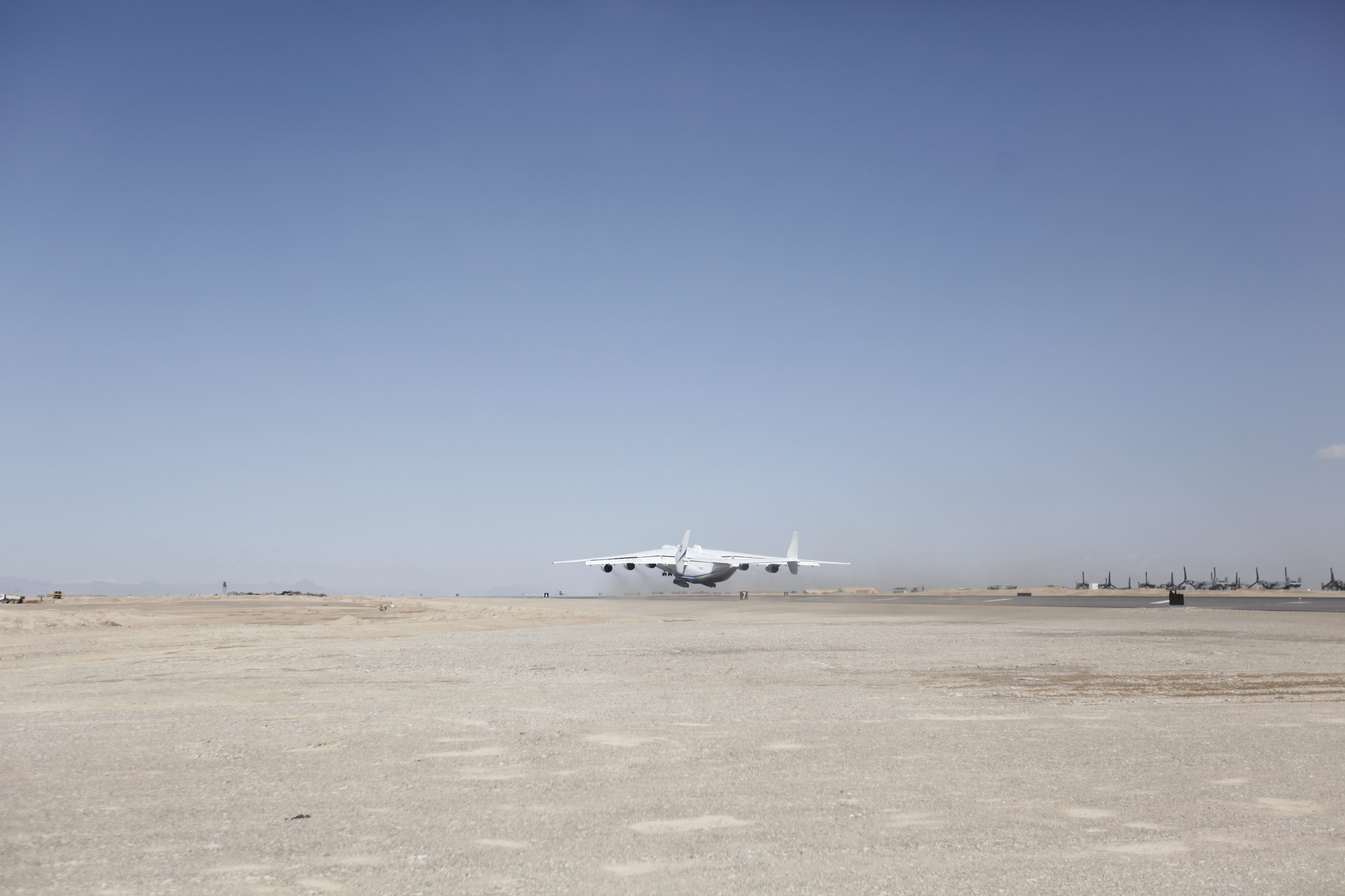 The Antonov An-225 touched down at Camp Bastion, Afghanistan, March 7. The largest and heaviest aircraft in the world, the one-of-a-kind An-225 is currently operated by Ukraine’s Antonov Airlines and contracted to carry large cargo and supplies around the world. (Photo ID: 375071)